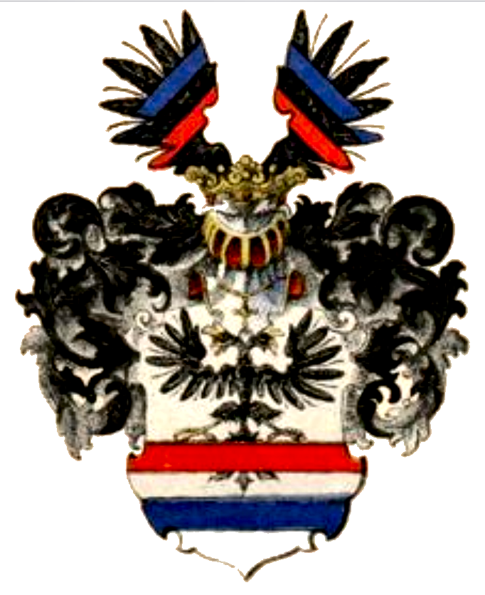 Coat of Arms of Zoege-von-Manteuffel family